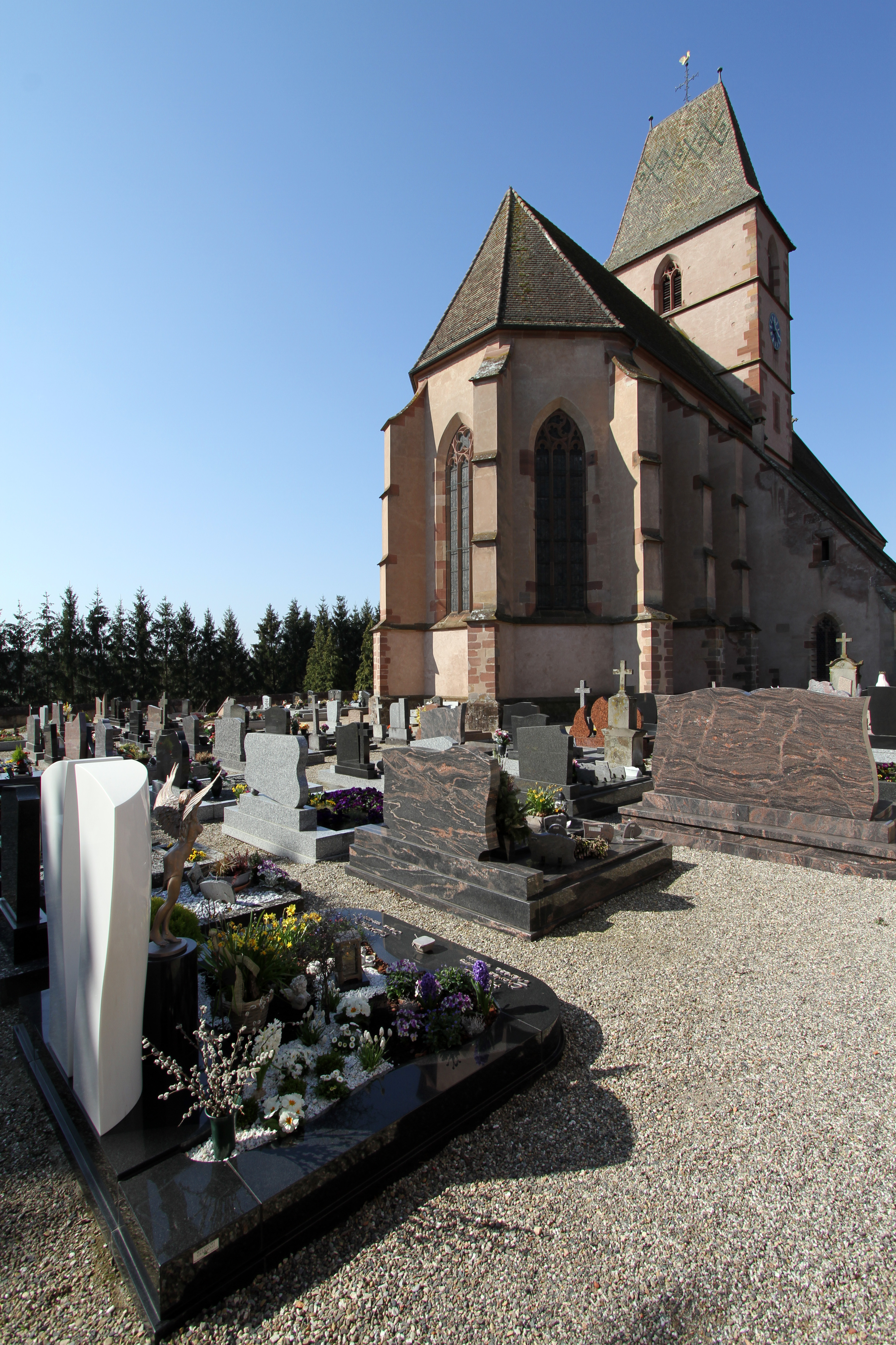 Church of Saint Walburg in Walbourg